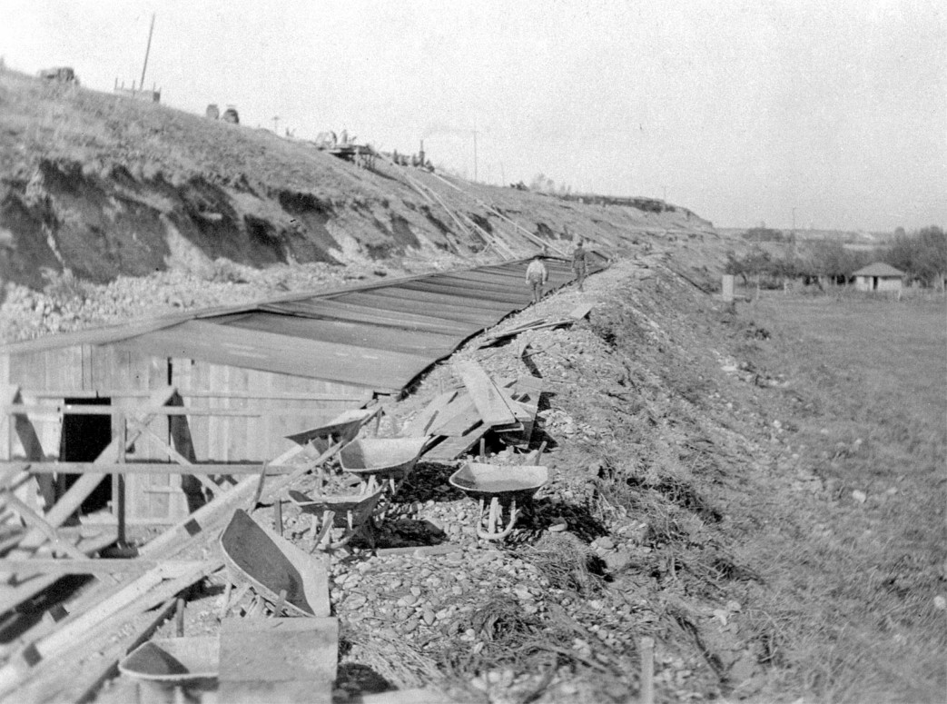 The New York Canal near Boise, Idaho, is under construction in this 1910 photo.